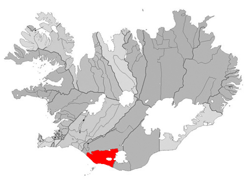 Based on Municipalities of Iceland.png.